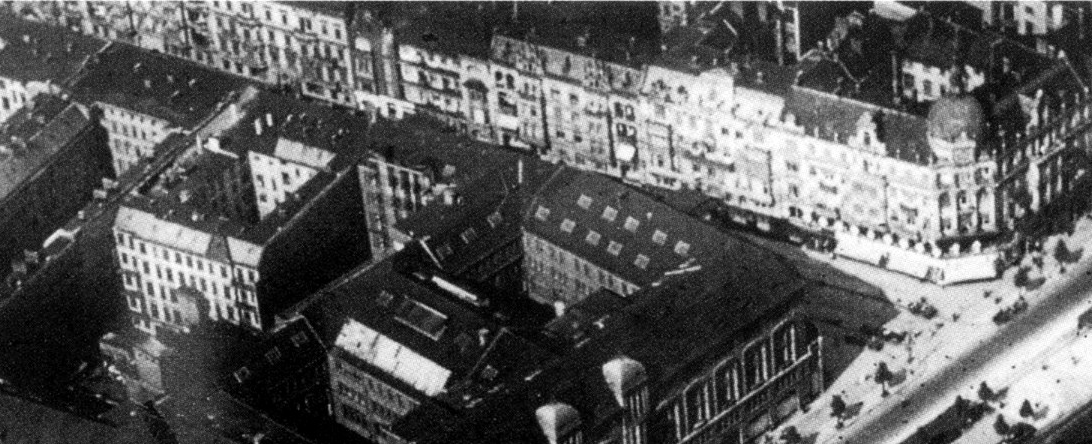 Aerial view of Passauer Straße in Berlin (1920)